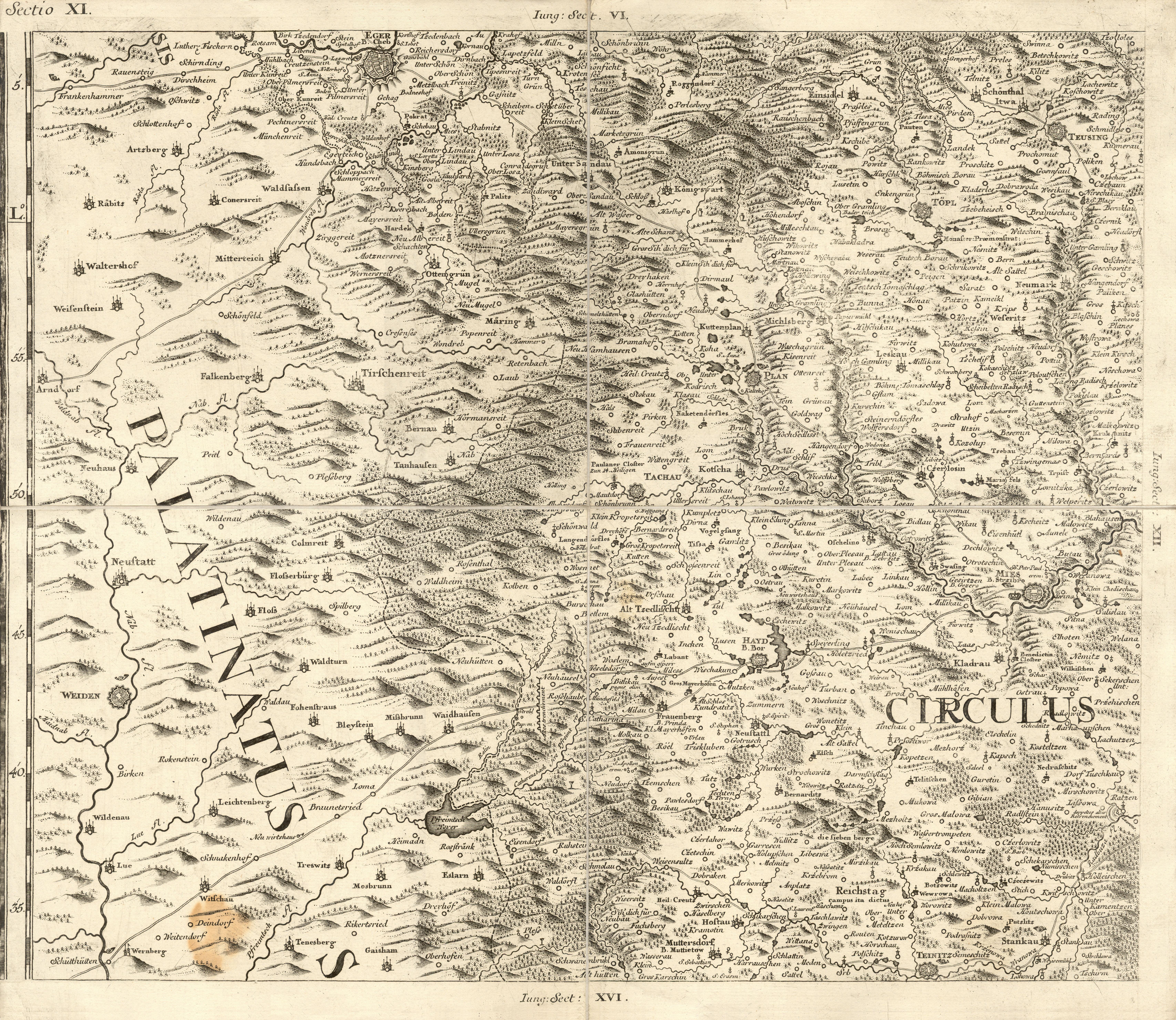 Müller's map of Bohemia.